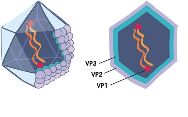 Animated picture of the IPN-virus